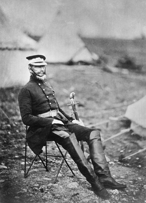 Crimean War 1854-56 Portrait of Major General Sir George Buller, KCB in camp. Commander of a Brigade of the Light Division in the Crimea 1854-1855.